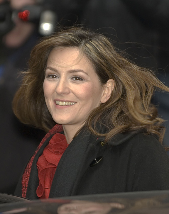 Martina Gedeck leaving the press conference of "The good shepherd", Hyatt Hotel, Potsdamer Platz, Berlin.